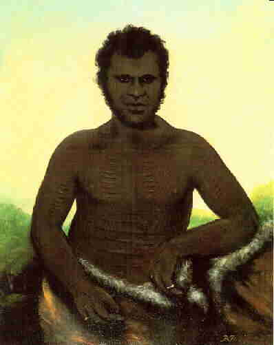 Portrait of Derremart by Benjamin Duterrau. Painted in 1837 as a result of the visit to Hobart with J.P. Fawkner. (Dixon Galleries, State Library of NSW.)